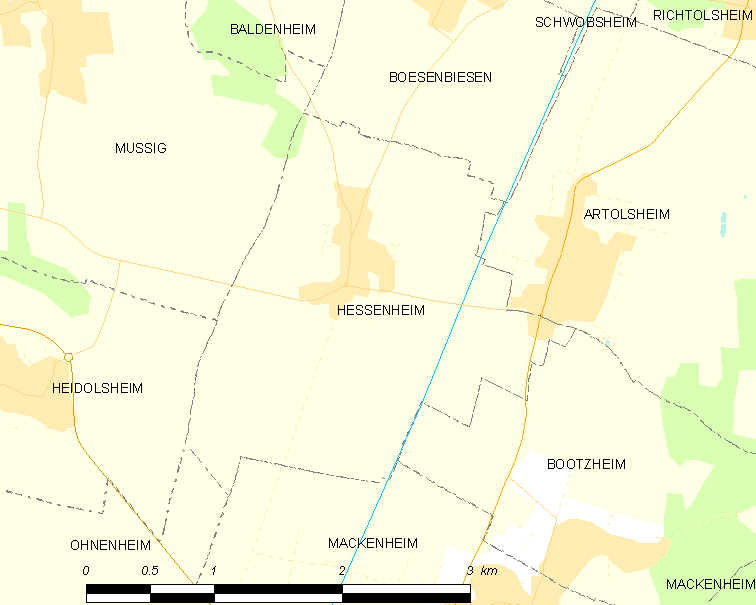 Map of French municipality